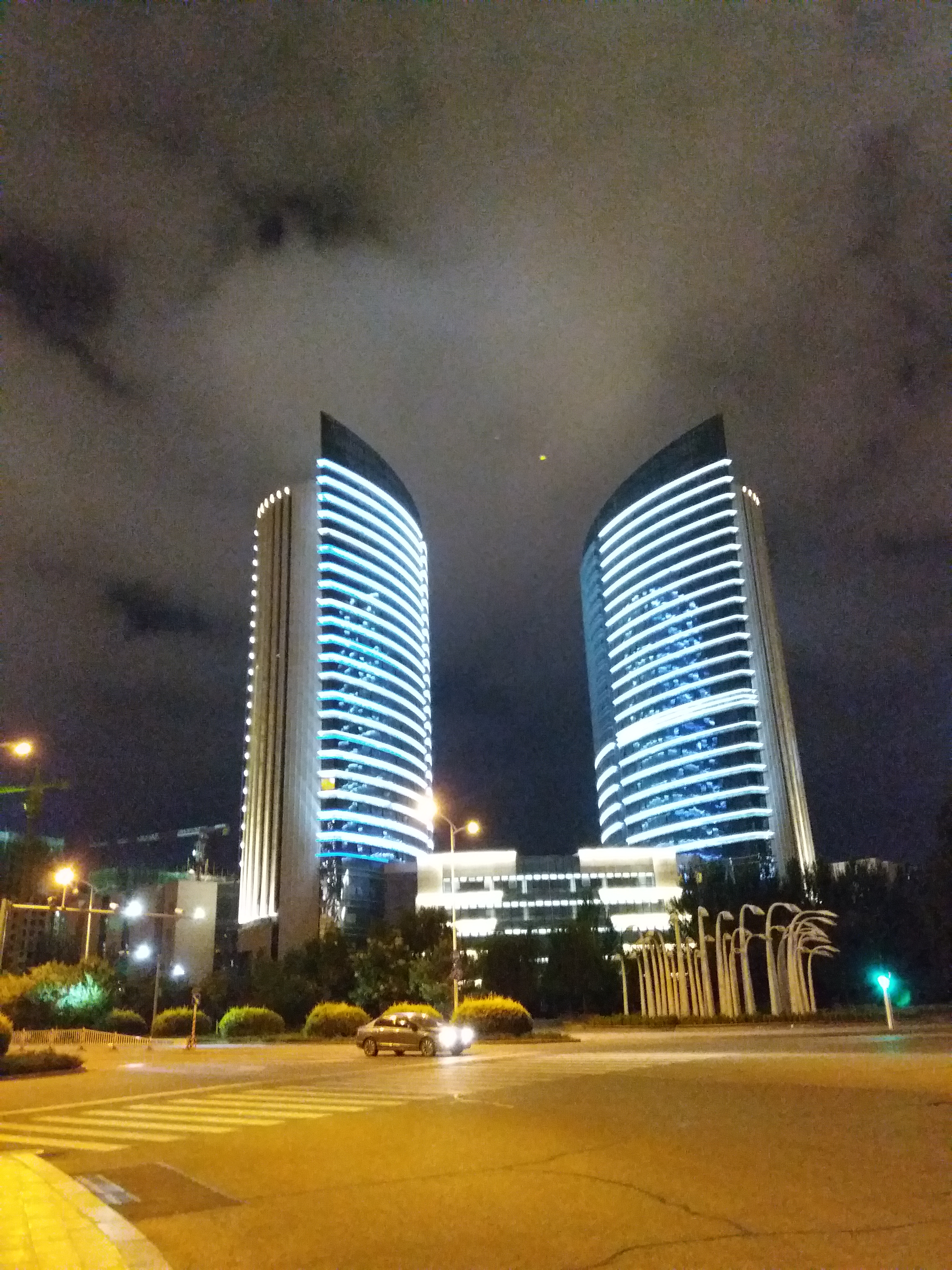 Newly constructed office complex in Altan Xire township, Ejin Horo Banner, Inner Mongolia